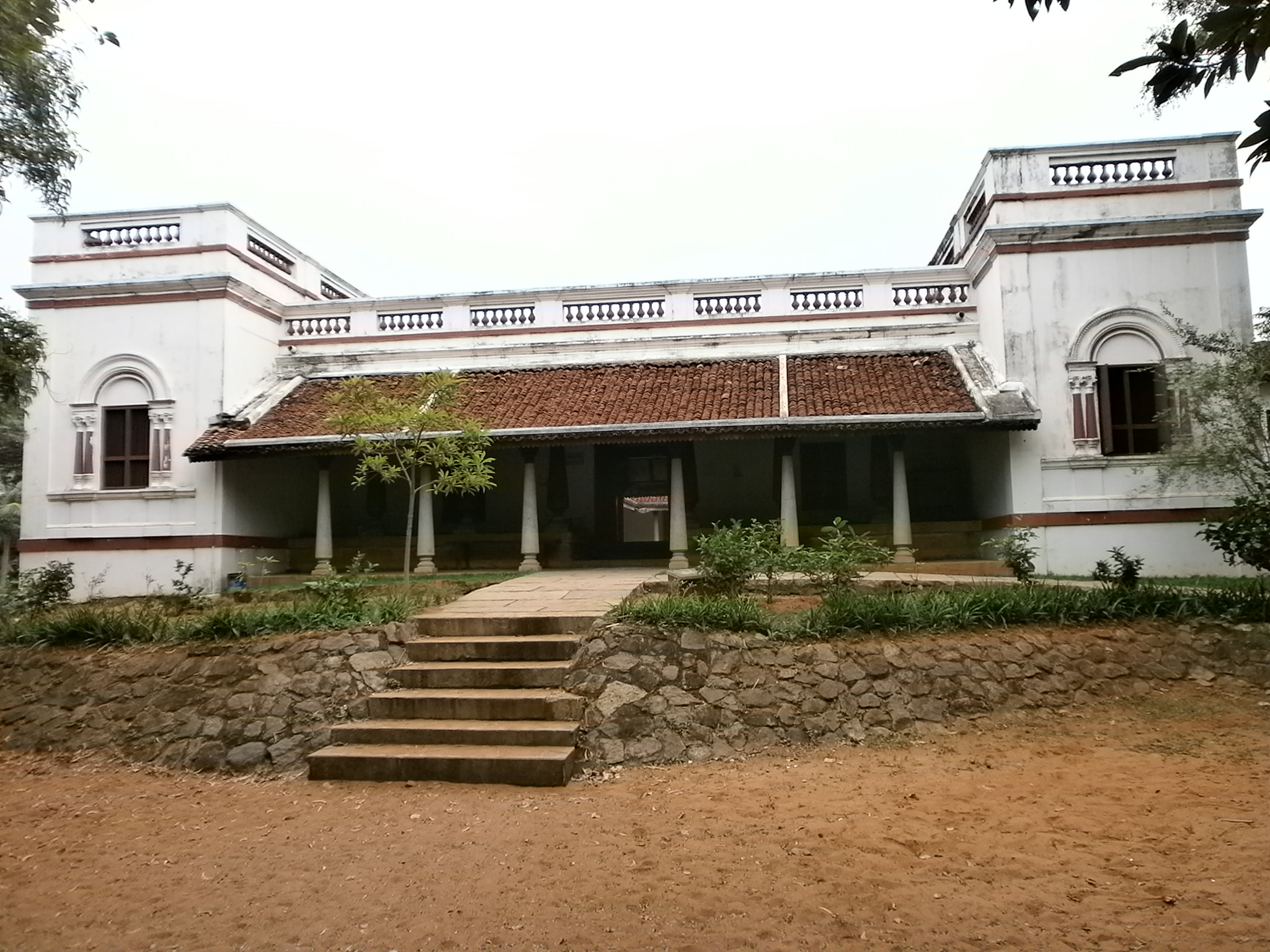 Dakshina-Chitra-Tamil-Nadu-House